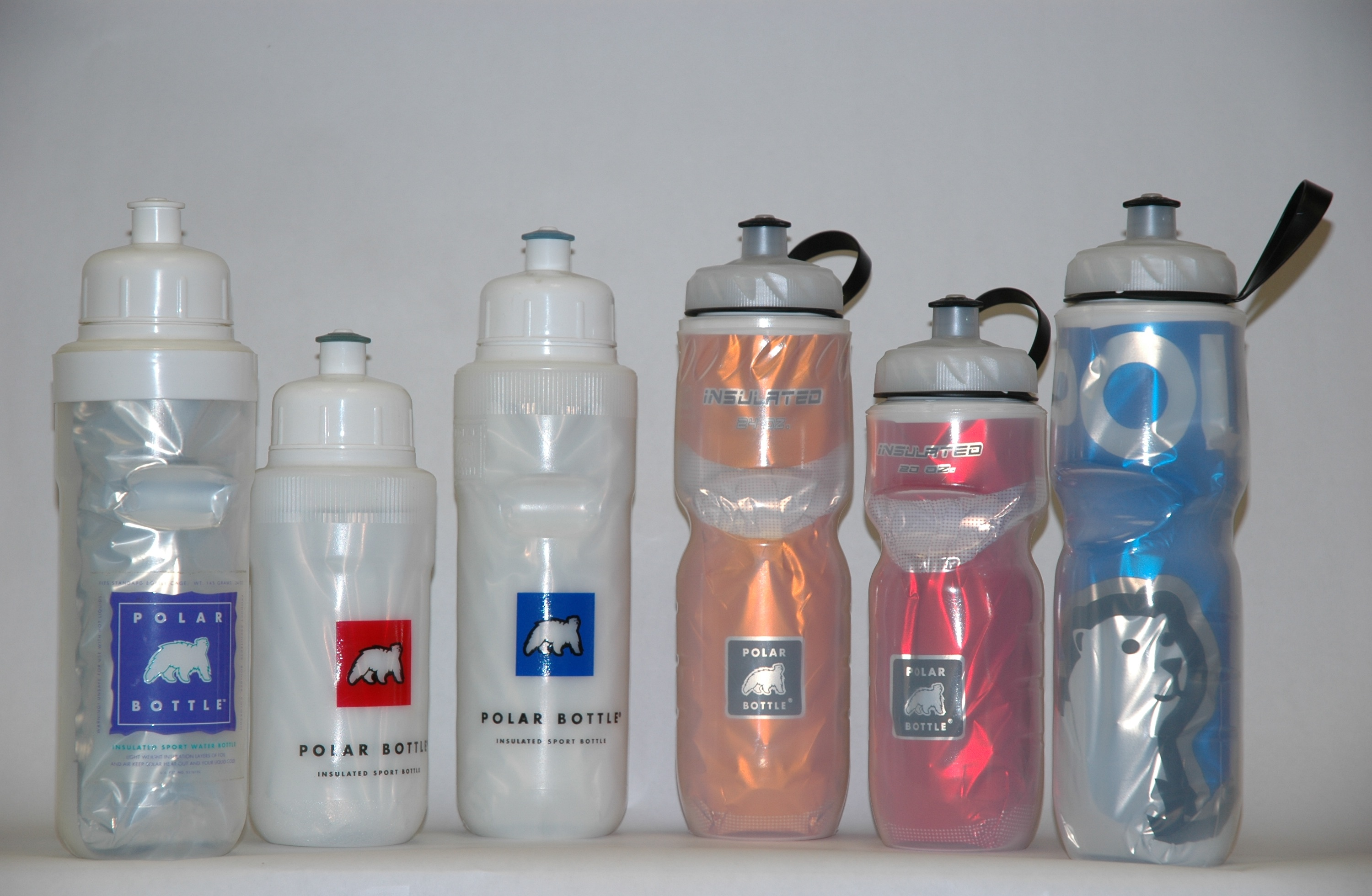 Polar Bottle® insulated sport water bottles. Image includes original design at left and further iterations until the current design at right.